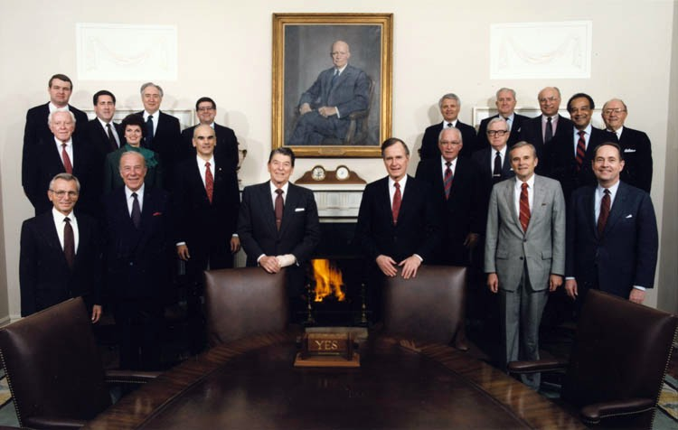 1989 US Cabinet - Class Photo. 1/11/89, Cabinet Room, White House. Front row: Frank Carlucci, Secretary of Defense; George Shultz, Secretary of State; President Reagan; Vice President Bush; Nicholas Brady, Secretary of Treasury; Richard Thornburgh, Attorney General Middle row: C. William Verity, Secretary of Commerce; Ann McLaughlin, Secretary of Labor; Don Hodel, Secretary of Interior; Richard Lyng, Secretary of Agriculture; Otis Bowen, Secretary of Health and Human Services; Samuel Pierce, Secretary of Housing and Urban Development Back row: James Burnley IV, Secretary of Transportation; John Herrington, Secretary of Energy; Lauro Cavazos, Secretary of Education; Ken Duberstein, Chief of Staff; Joseph Wright, Director, Office of Management and Budget; Vernon Walters, U.S. Representative to the United Nations; Clayton Yeutter, U.S. Trade Representative; William Webster, Director of Central Intelligence